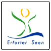 Signet of the bikeway Erfurter Seen